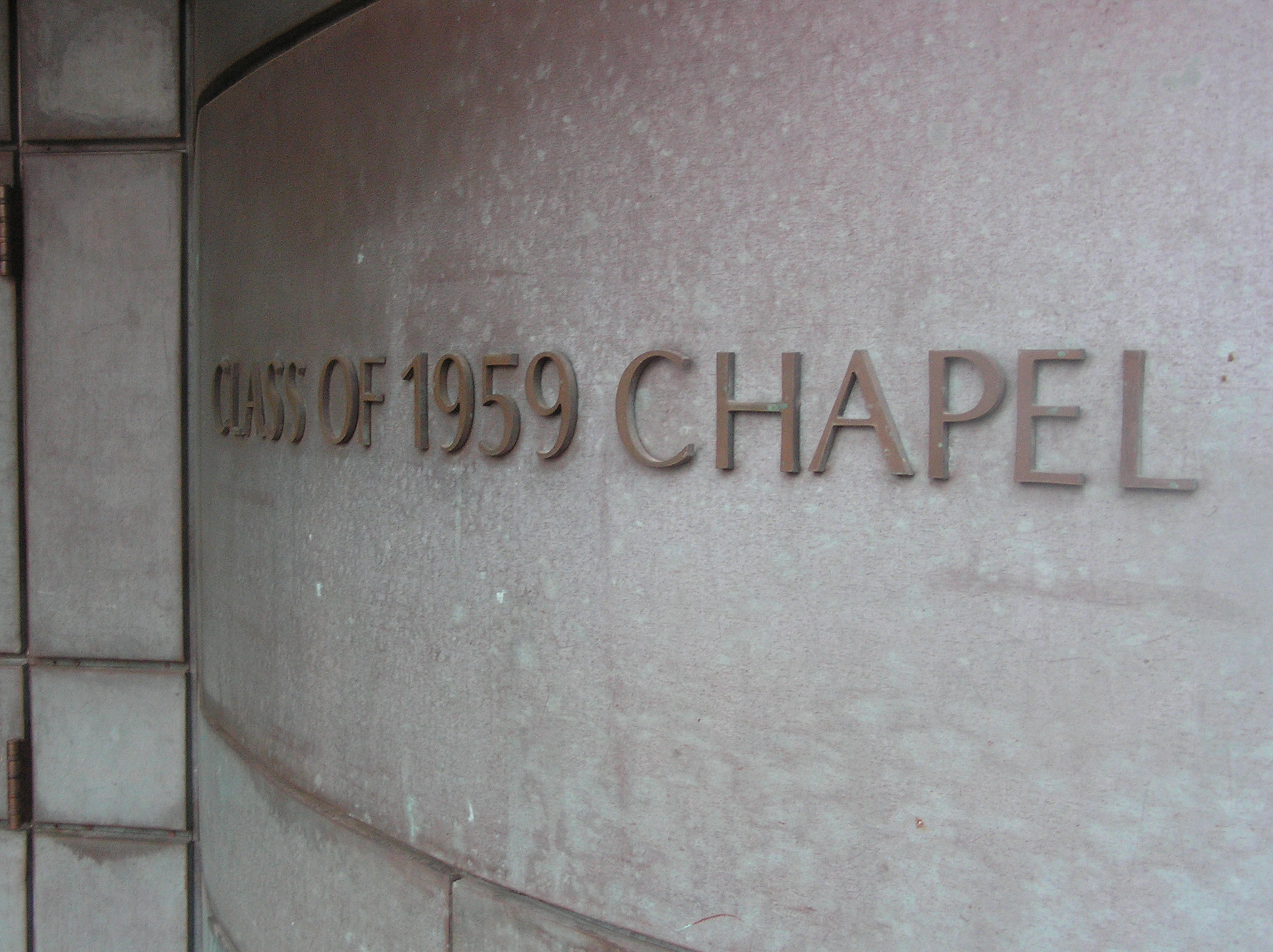 Class of 1959 chapel, Harvard. My own photo.